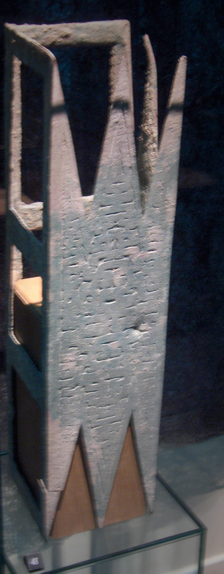 Architectonic bronze ornament, decorated with a snake motif ; Yongcheng; Spring and Autumn Period (from the second half of the 8th century BC to the first half of the 5th century BC).